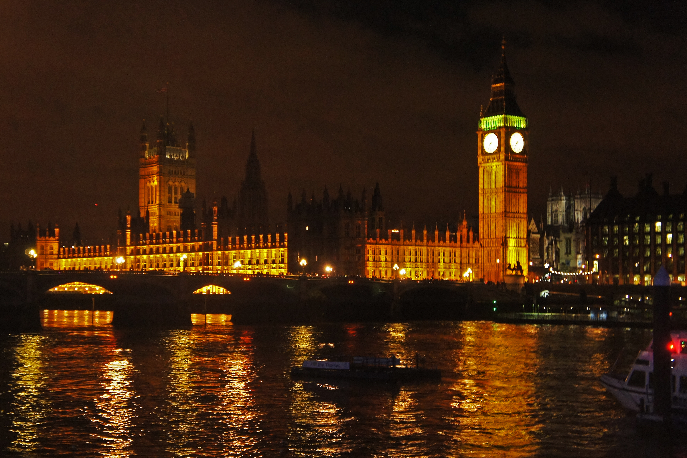 Clock Tower (Big Ben), Palace of Westminster at night, London